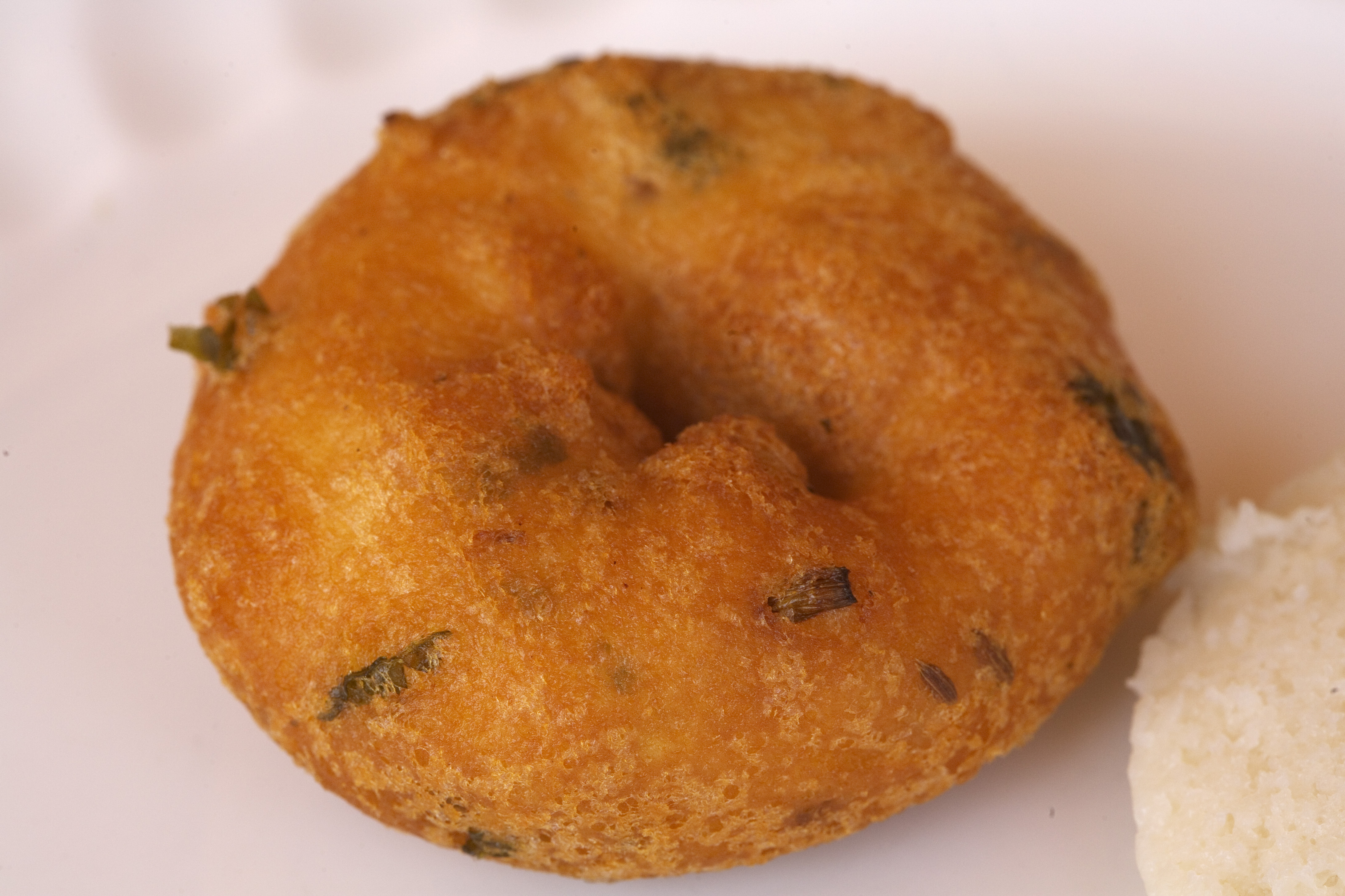 Vada - It really resembles a donut.